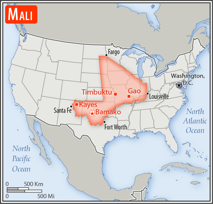 Comparison of the areas of two country. The area of Mali with biggest cities (red) overlay the area of the United States of America (gray background).